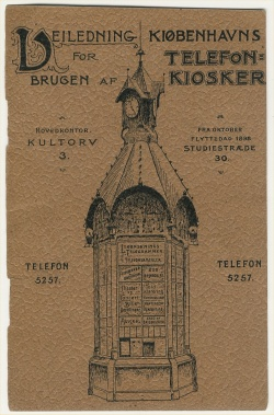 Instruction from the telephone kiosks operated by A/S Kjøbenhavns Telefonkiosker in Copenhagen, Denmark